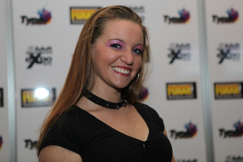 Emily Eve at AEE Expo Photos from the 2012 AEE Expo & AVN Awards held at the at the Hard Rock Hotel & Casino in Las Vegas.